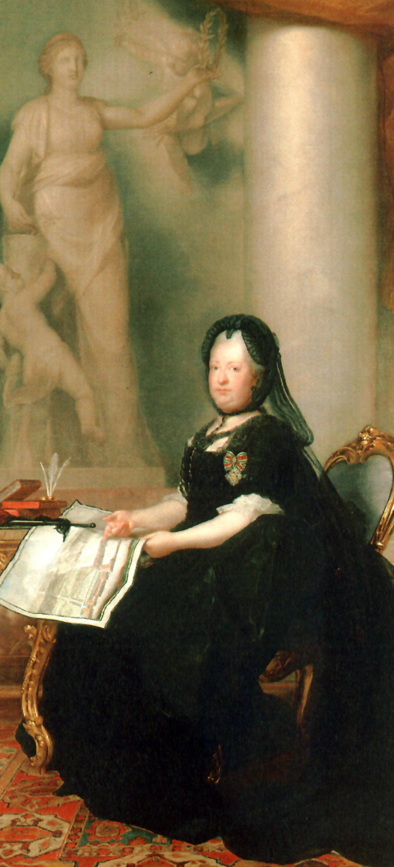 Portrait of Maria Theresa of Austria (1717-1780)